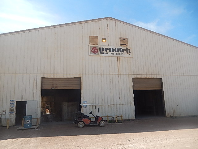 I took photo of Penatek Industries building in Odessa, TX with Nikon camera.